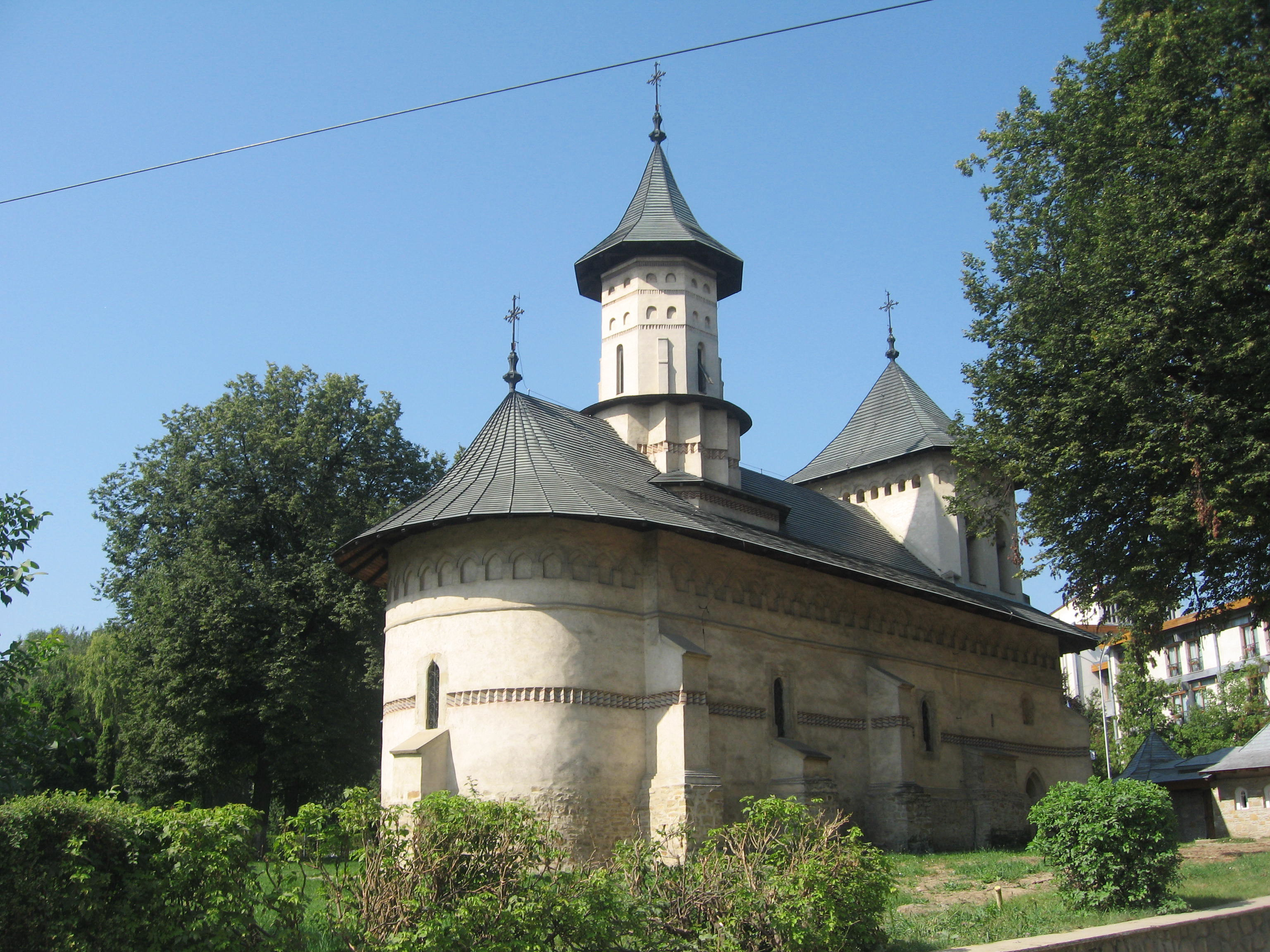 St. Nicholas Church in Suceava.